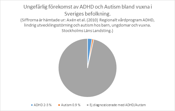 ADHD och autism hos vuxna i Sverige.